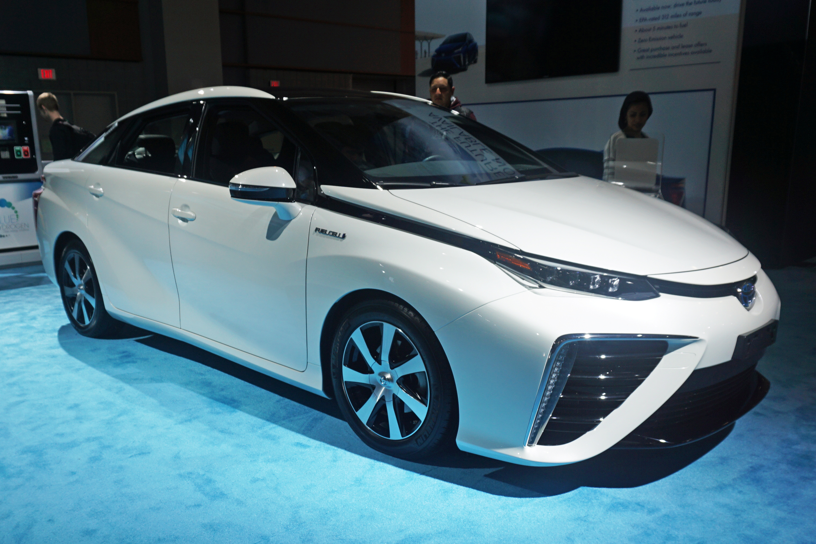 Toyota Mirai hydrogen fuel cell car exhibited at the 2017 Washington Auto Show, D.C., U.S.